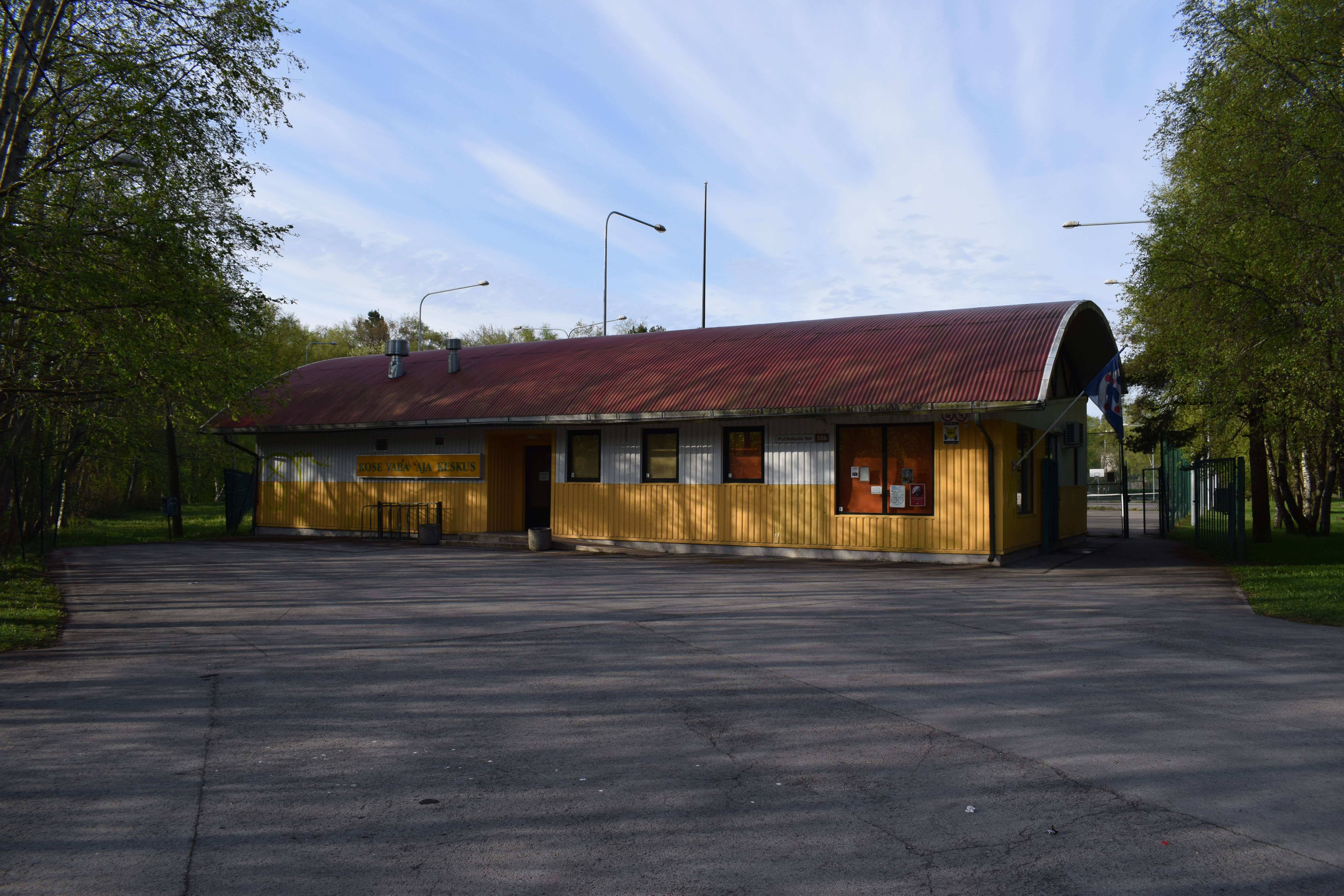 Kose vabaajakeskus